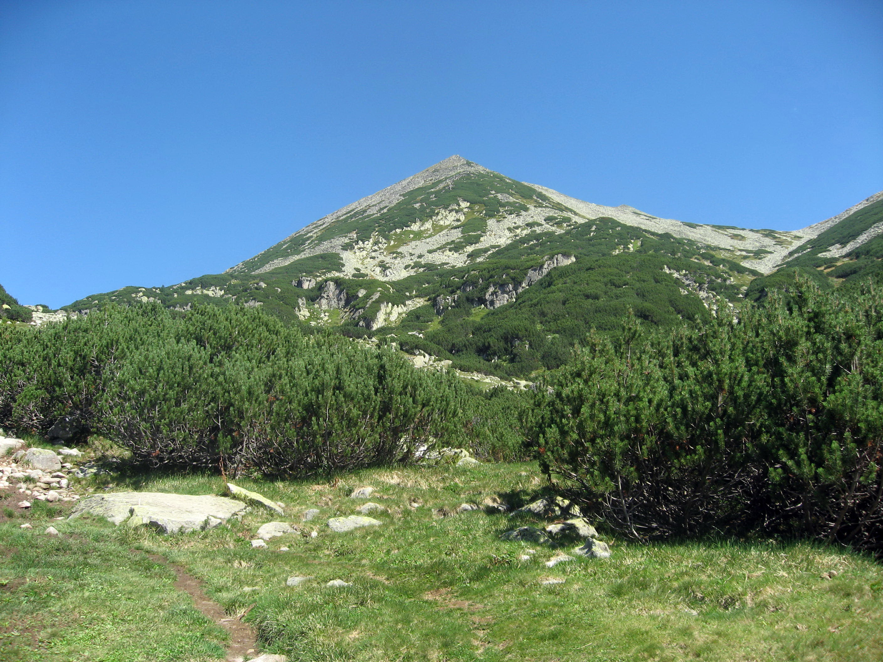 Custura Bucurei, Romania. Shrubs are Pinus mugo.